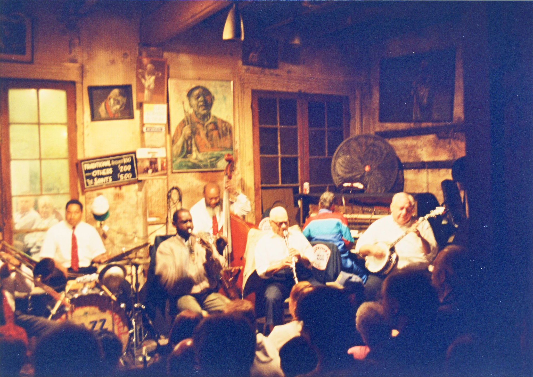 Preservation Hall Jazz Band playing at the Preservation Hall, New Orleans, LA Visible musicians include Gregg Stafford, trumpet; Walter Payton, string bass; possibly Jeanette Kimball, piano; John Caffe, banjo